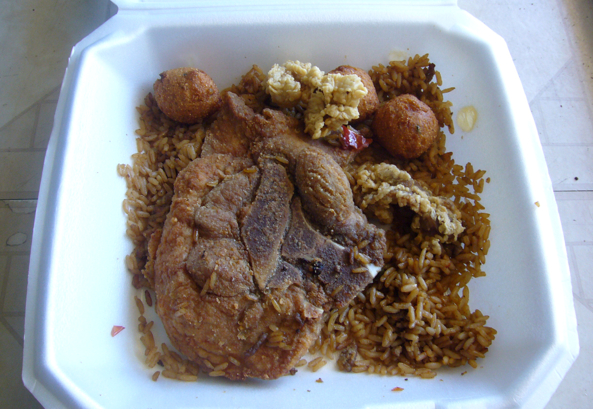 Pork chops and dirty rice - Southern (US) style